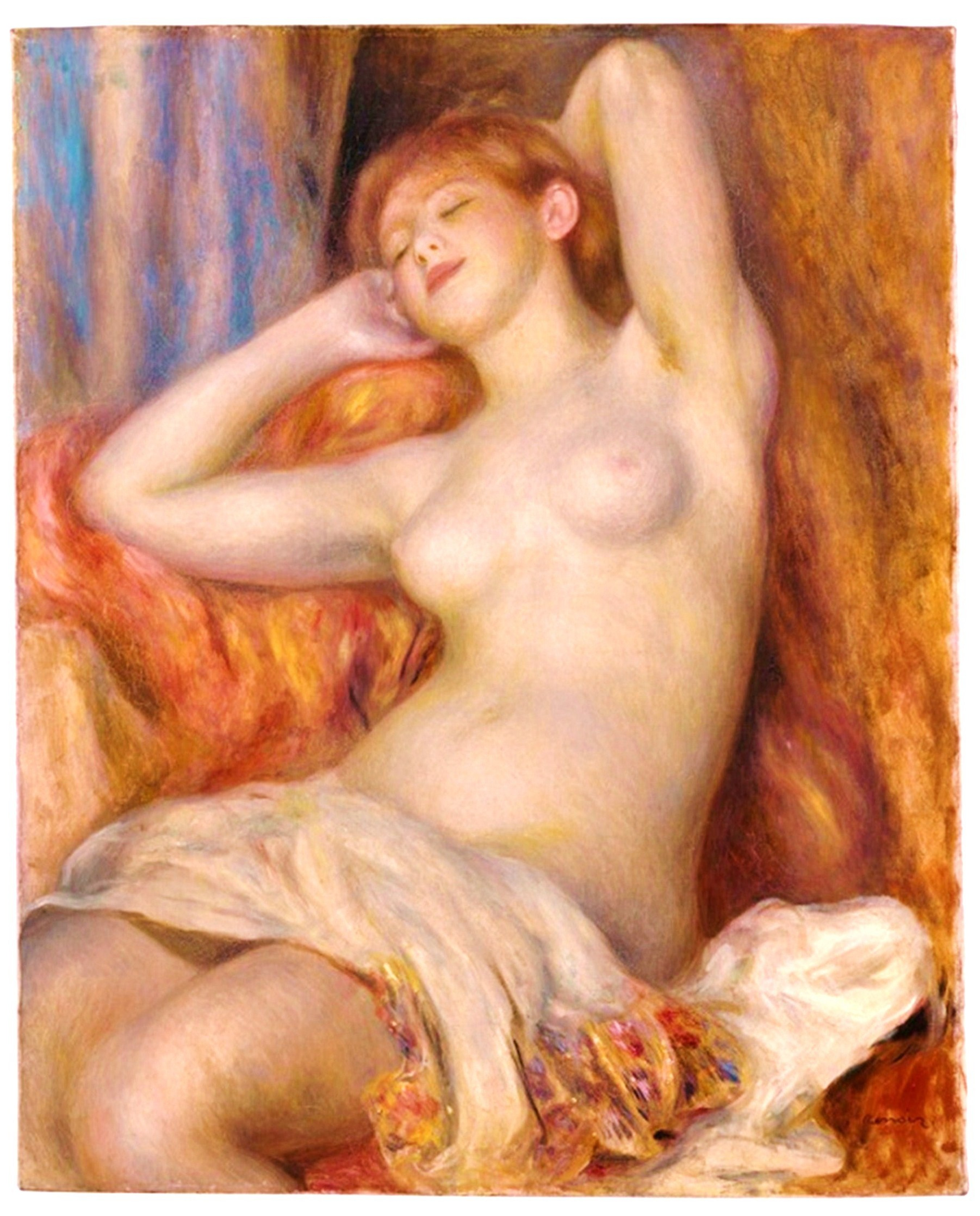 The sleepy bather is a work of Auguste Renoir, painted in 1897. The model would be Gabrielle Renard, the nanny of his son Jean Renoir, or Amélie Diéterle, the artist of the Variety Theater. Both became the painter's muses. This painting is part of the collection of Amélie Diéterle until 1920. Note that Gabrielle Renard was dark hair and that Amélie Diéterle was blond in Renoir's portraits. This opposition between a brown dullness to a light blond is found in the portrait of Miss Amélie Diéterle (Tea Time 1911) by Pierre-Auguste Renoir.